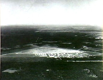 RAAF Base Bundaberg, Qld. Aerial oblique photograph taken by war photographer William Robinson from an Anson aircraft based at Bundaberg.